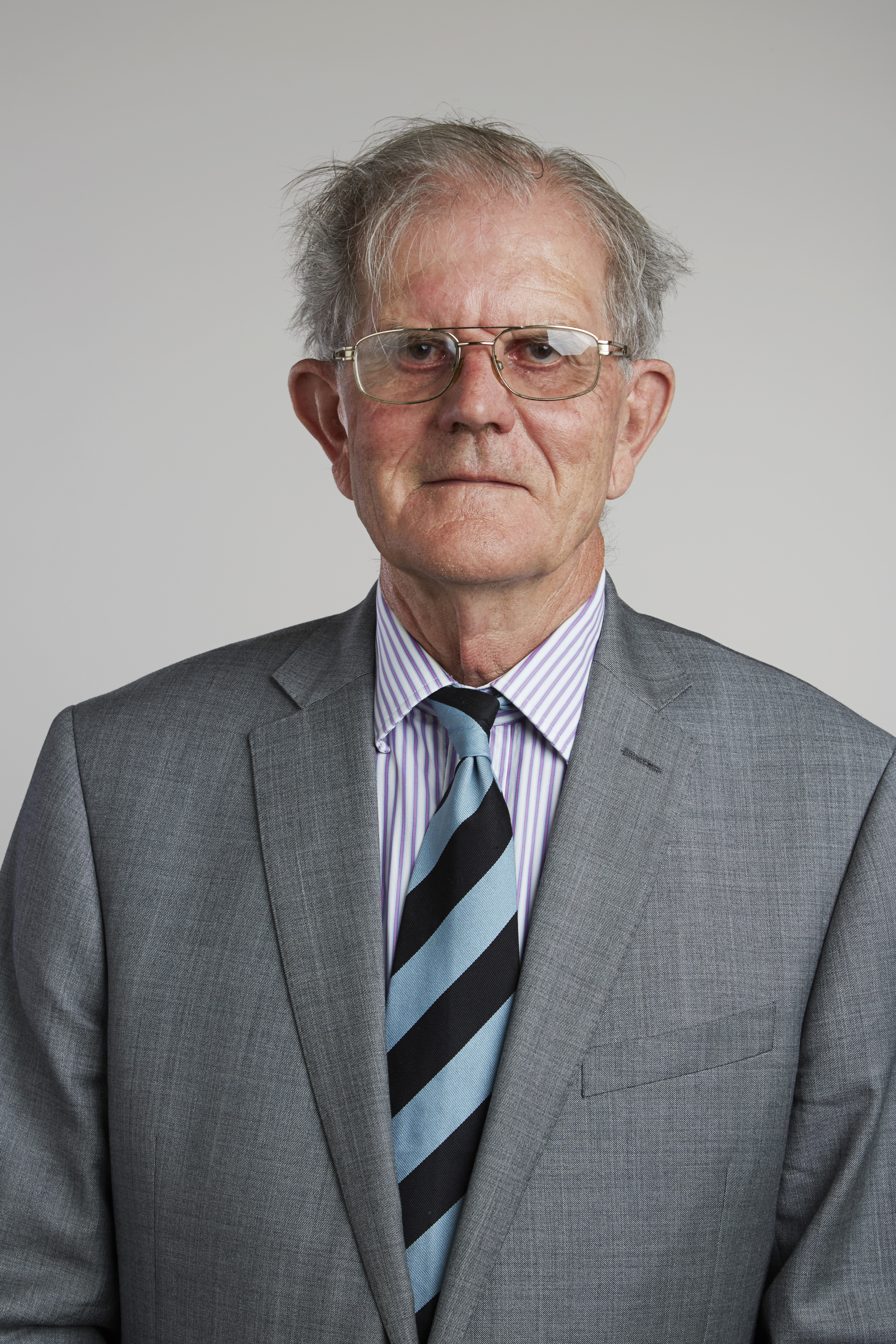 Professor Anthony Edwards (A.W.F.Edwards) was born in London on 4 October 1935. The younger brother of John Hilton Edwards FRS, he followed him to Uppingham School and Trinity Hall, Cambridge. Whereas John read medicine, Anthony read natural sciences, specialising in genetics under R.A.Fisher FRS, for his third year, and proceeding to a PhD in the department after Fisher retired in 1957. After one postdoctoral year he was invited by Professor L.L.Cavalli-Sforza to the University of Pavia, where, in 1961-1964, they initiated the statistical approach to the construction of evolutionary trees from genetical data, using the first modern computers. A year at Stanford was followed by three years as Senior Lecturer in Statistics at the University of Aberdeen under Professor D.J.Finney FRS and then two years as a Bye-Fellow in Science at Gonville and Caius College, Cambridge, during which he wrote his book Likelihood. The remainder of Professor Edwards’s career has been spent at Cambridge, ultimately as Professor of Biometry, during which he has published widely, including books on Venn Diagrams, Mathematical Genetics, and Pascal’s Triangle. Attribution: The Royal Society